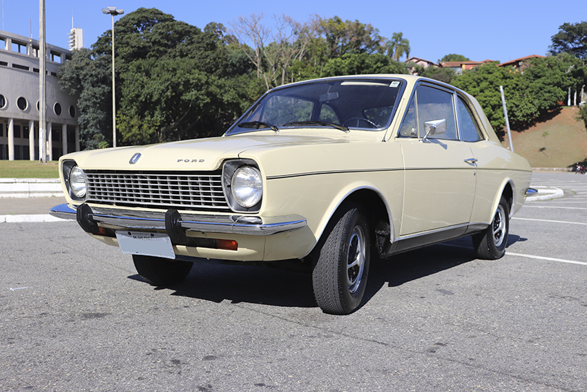 Ford Corcel model Luxo 1977, with LDO wheels model.